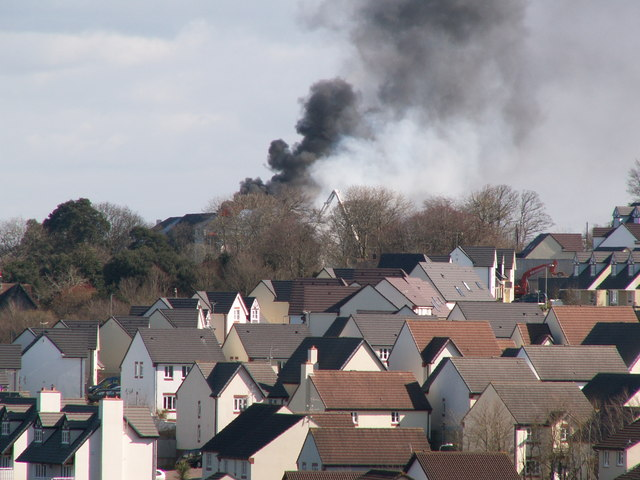 Edgehill College burning